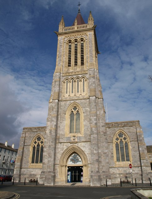 St Peter's parish church, Wyndham Square, Plymouth, seen from the west